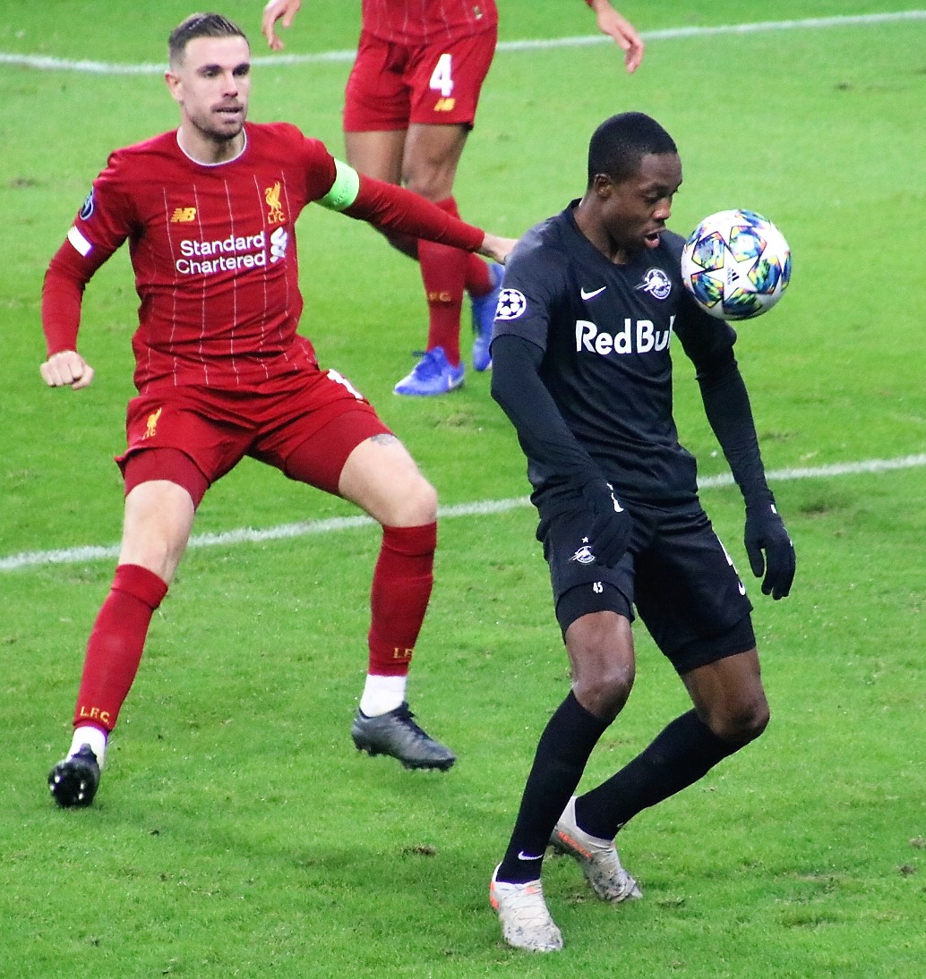 UEFA Champions League 6th round Group stage